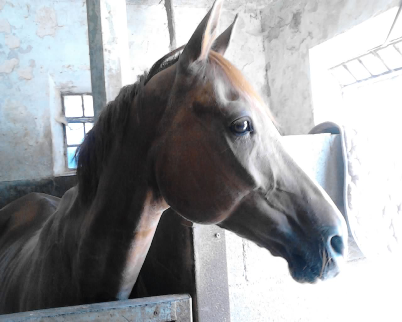 A horse in Italy